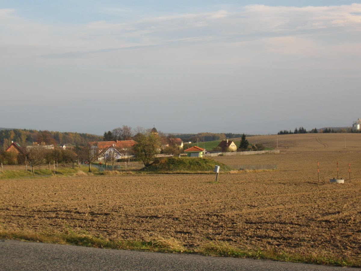 Krásensko, Vyškov District, Czech Republic.